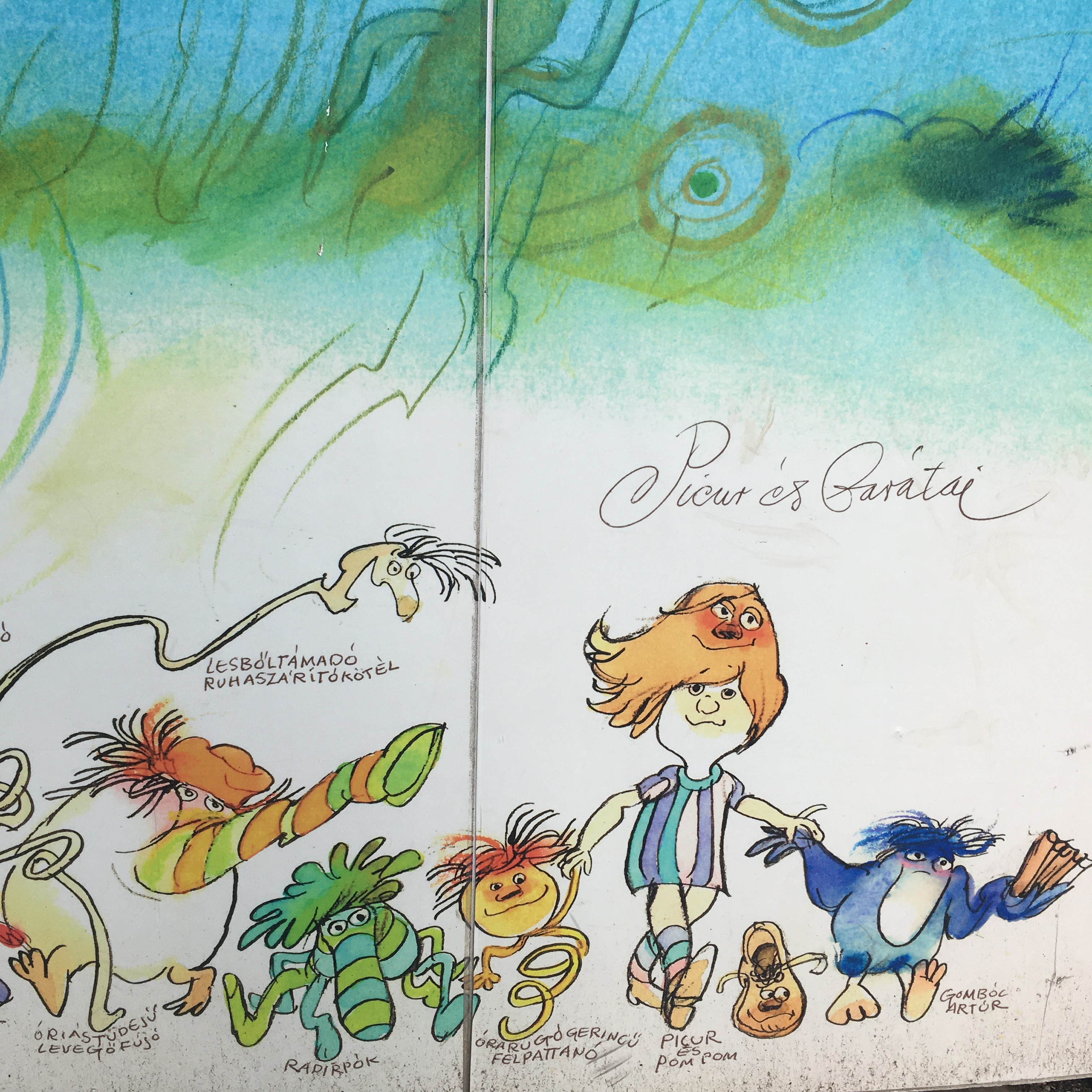 Pom-Pom Park in Budapest, Naphegy square